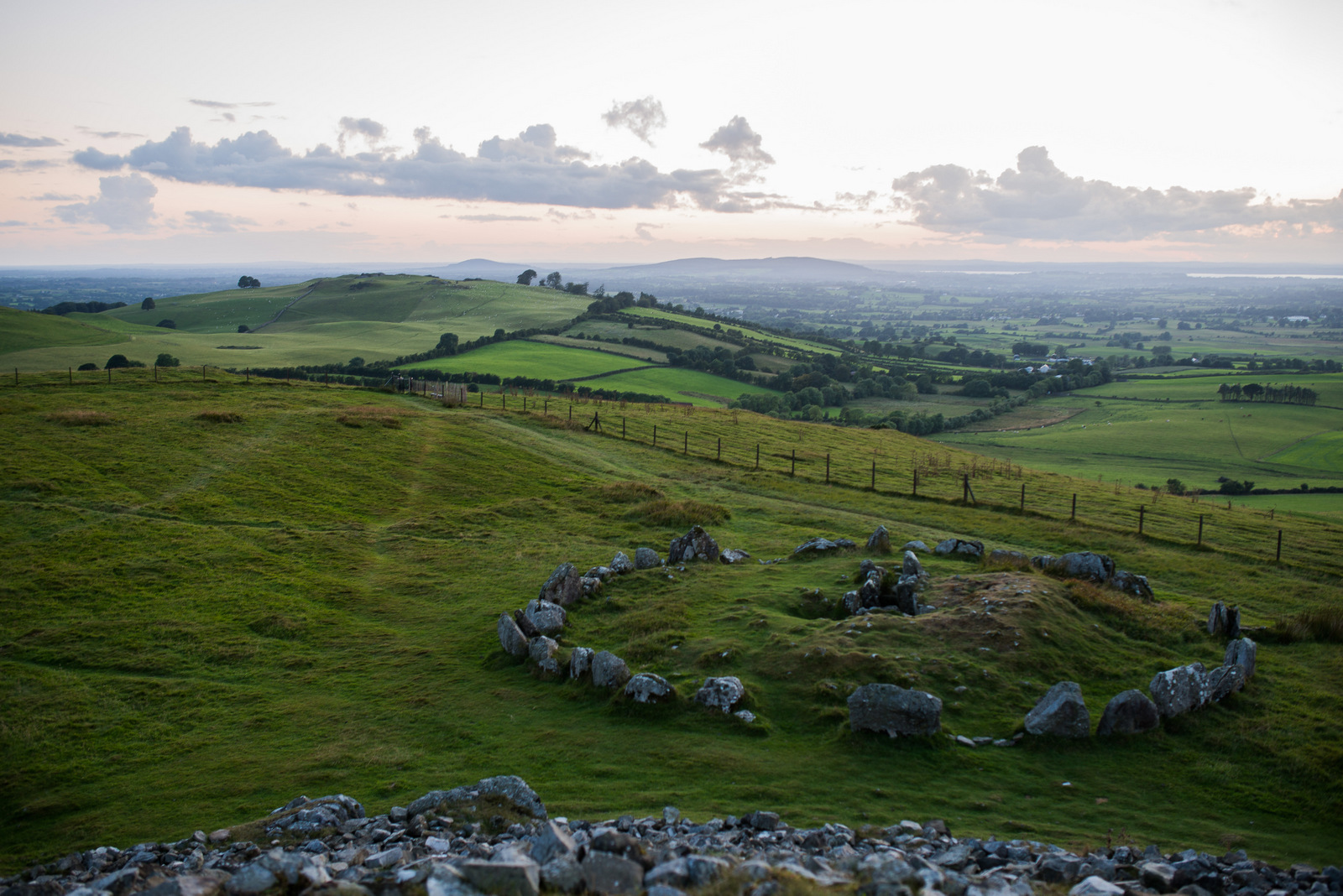 Views from Loughcrew Passage Tomb near Oldcastle, County Meath